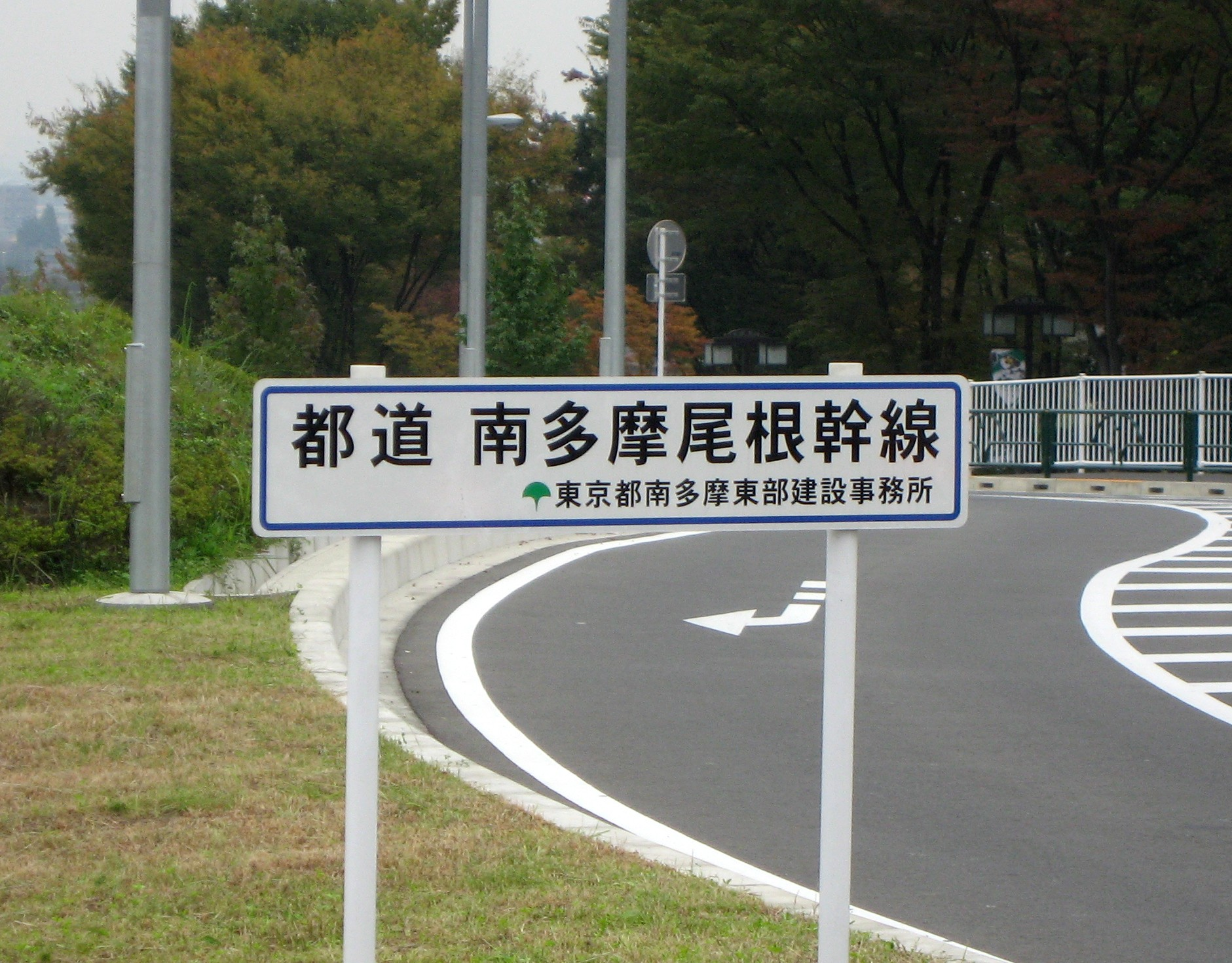 The Sign of Minami-Tama Ridge Arterious of Tokyo Prefectual Road, Inagi-shi, Tokyo, Japan.